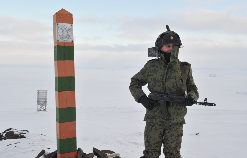 “Frontier station "Nagurskoye"”. Frontier guard at frontier station "Nagurskoye" of Federal Border Guard Service of Arkhangelsk region, located on Alexandra's Land island of Franz Josef Land archipelago.